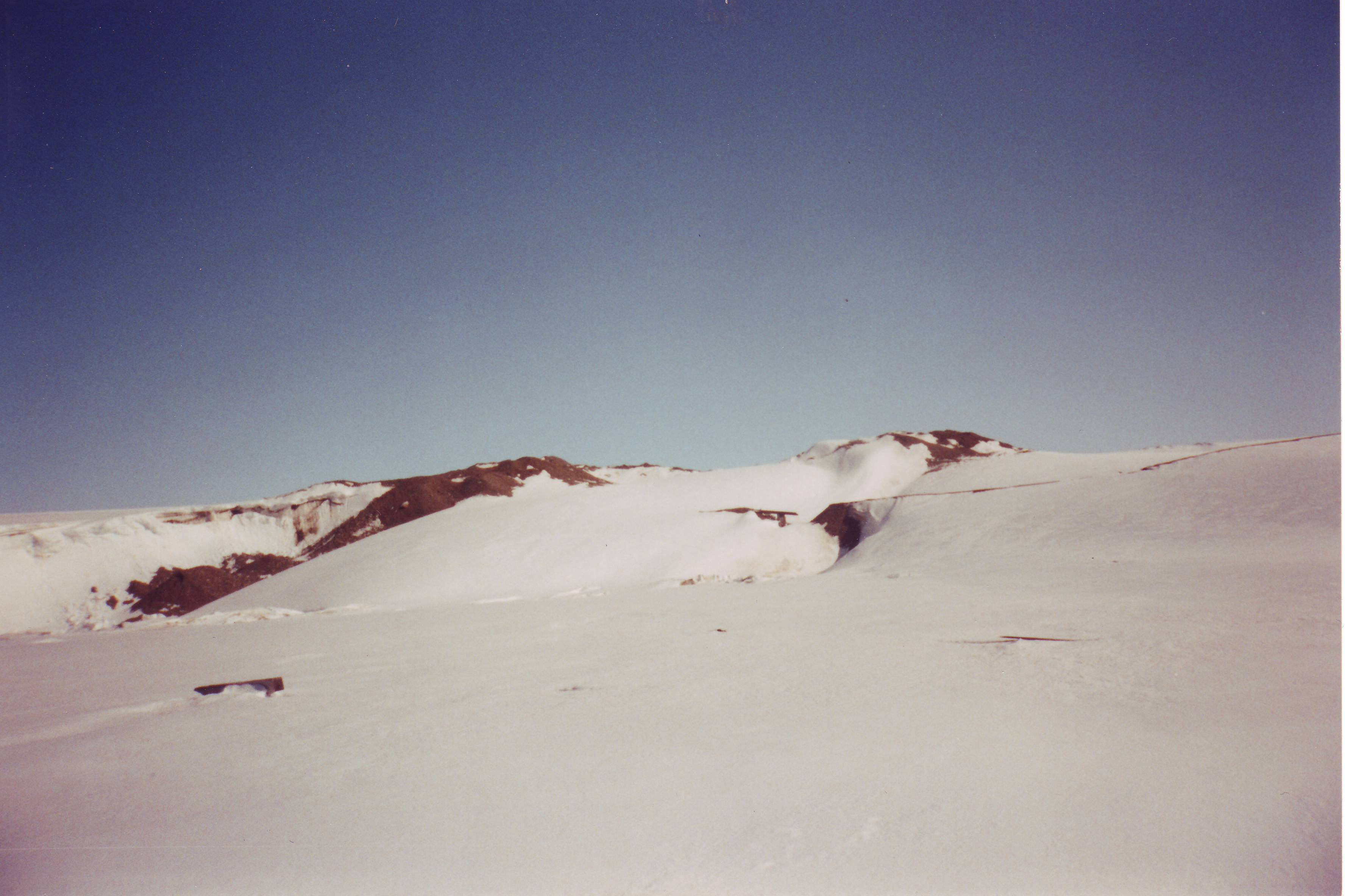 Road to the Greenland ice sheet from Camp Tuto near Thule Air Base. The road is/was used for sled-transports to Camp Century